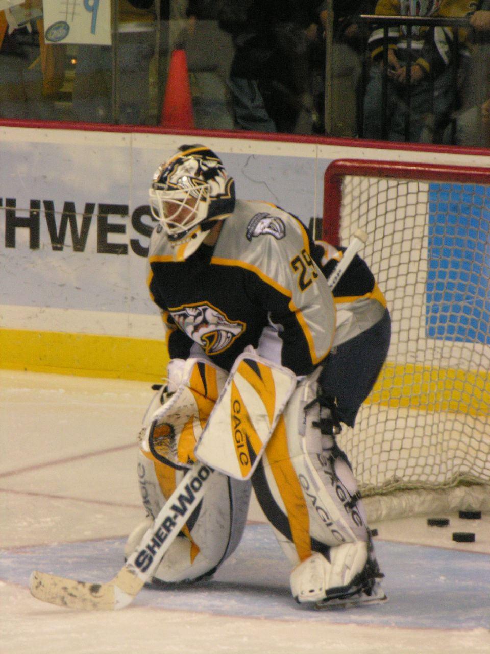 Tomas Vokoun, ice hockey goaltender of the Nashville Predators